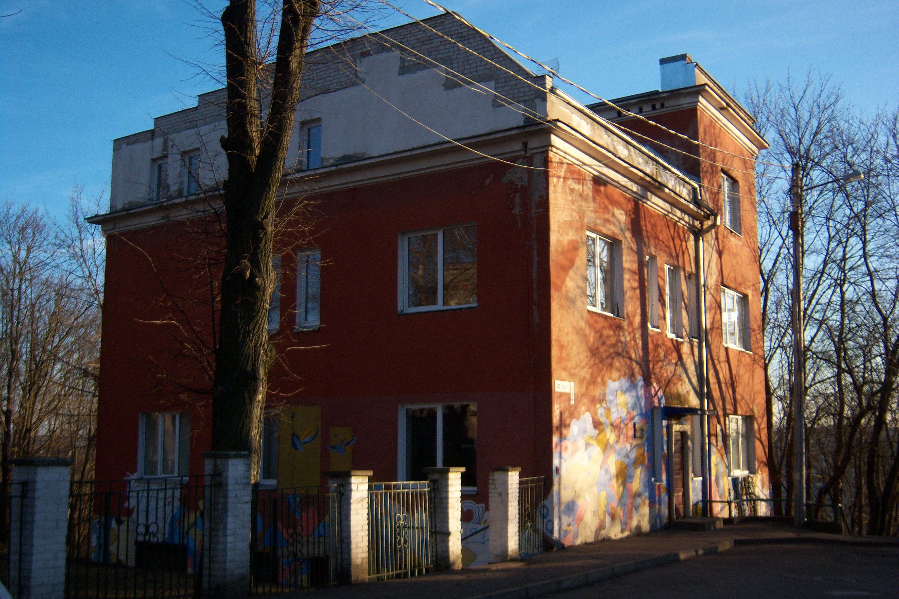 Kaunas Art Gymnasium at Dzūkų street, Lithuania